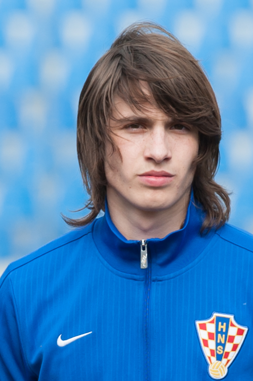 European Under-19 Championships 2015 Elite Round, Austria vs. Croatia, 28/03/2015 Wiener Neustadt, Lower Austria